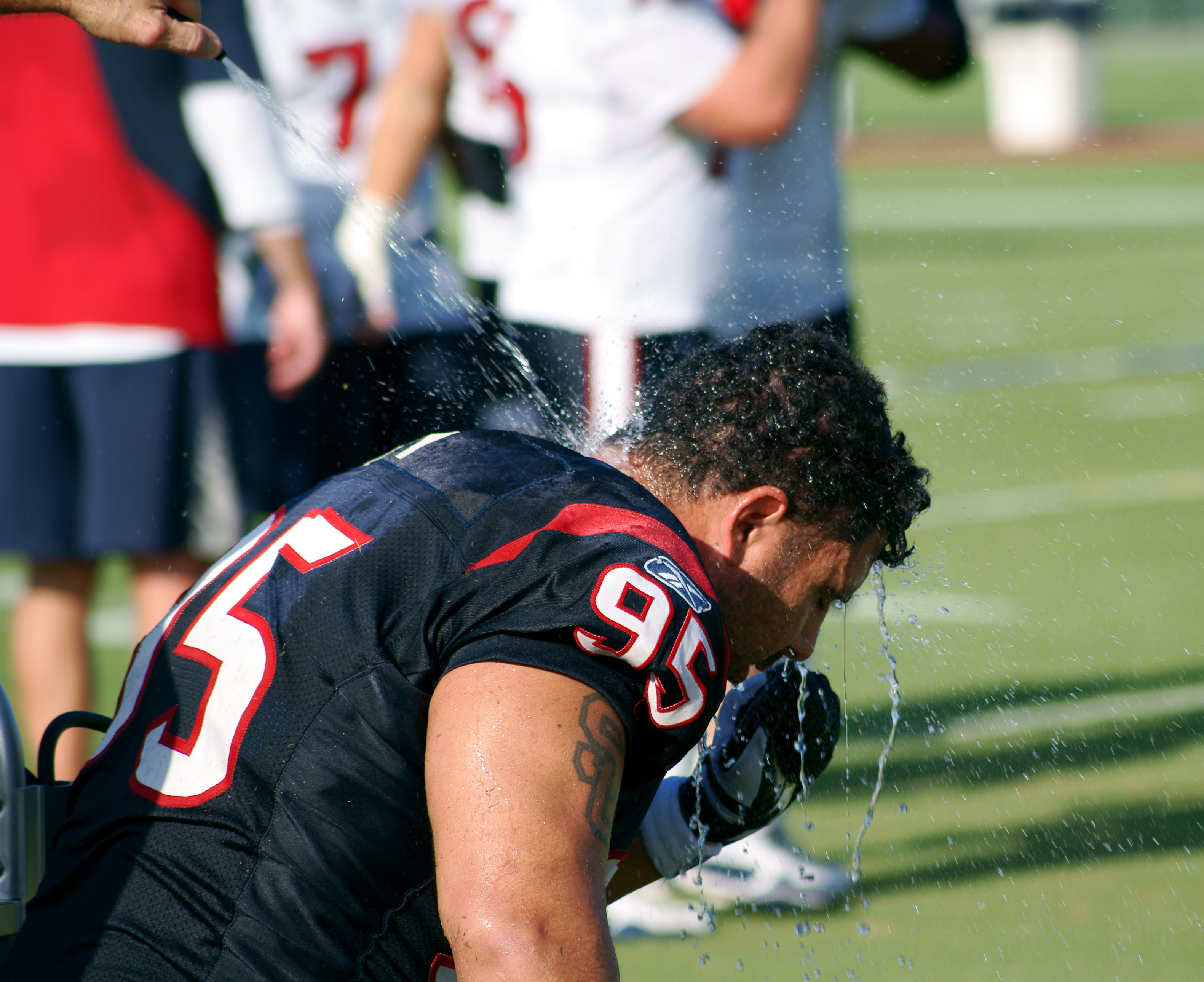 Shaun Cody of the Houston Texans